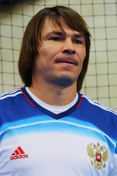 Dmitry Loskov